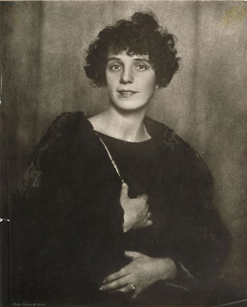 Hugo Erfurth - Portrait der Nina Kandinsky, 1924